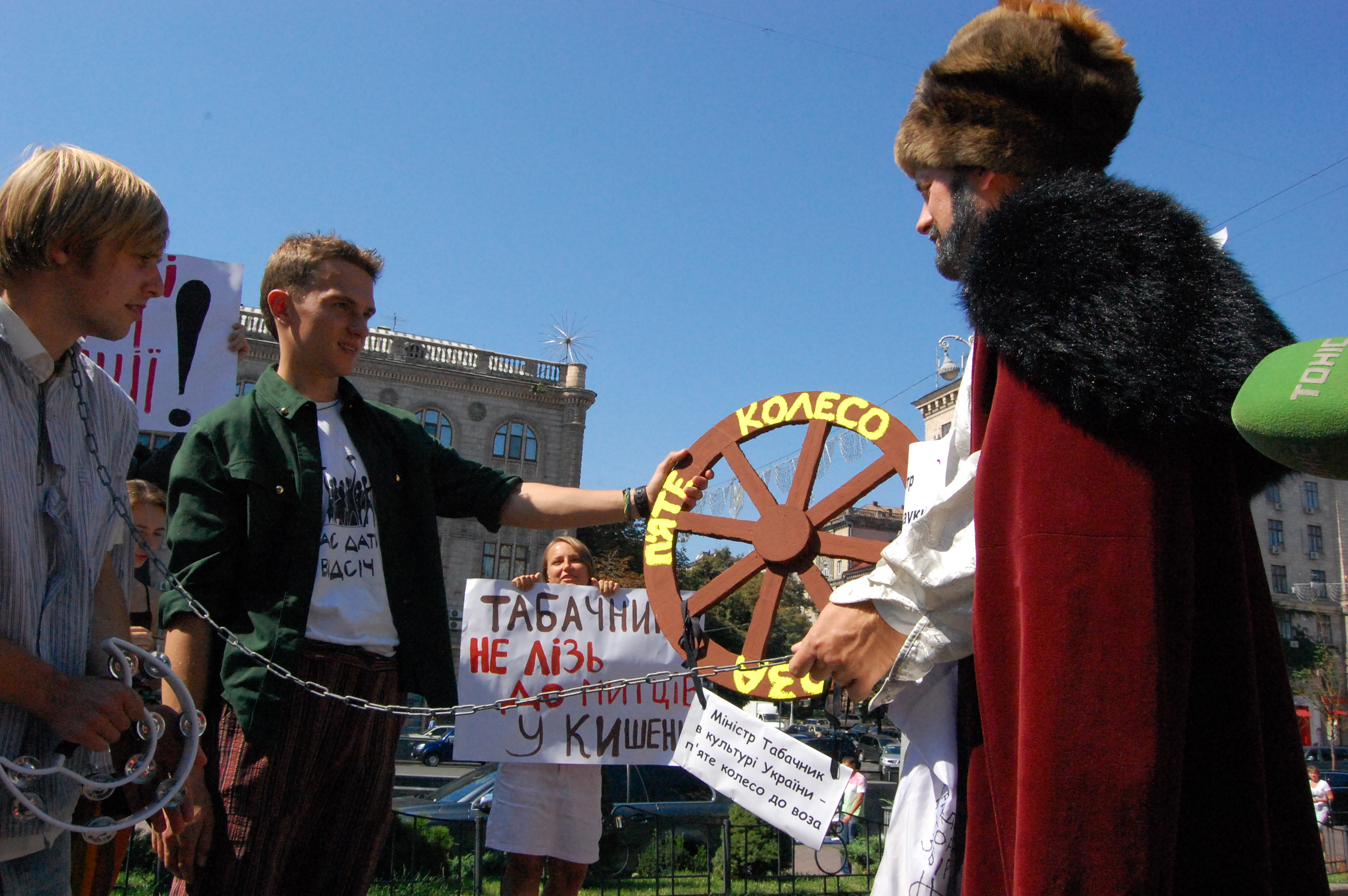 Picture made by activist of "Vidsich".